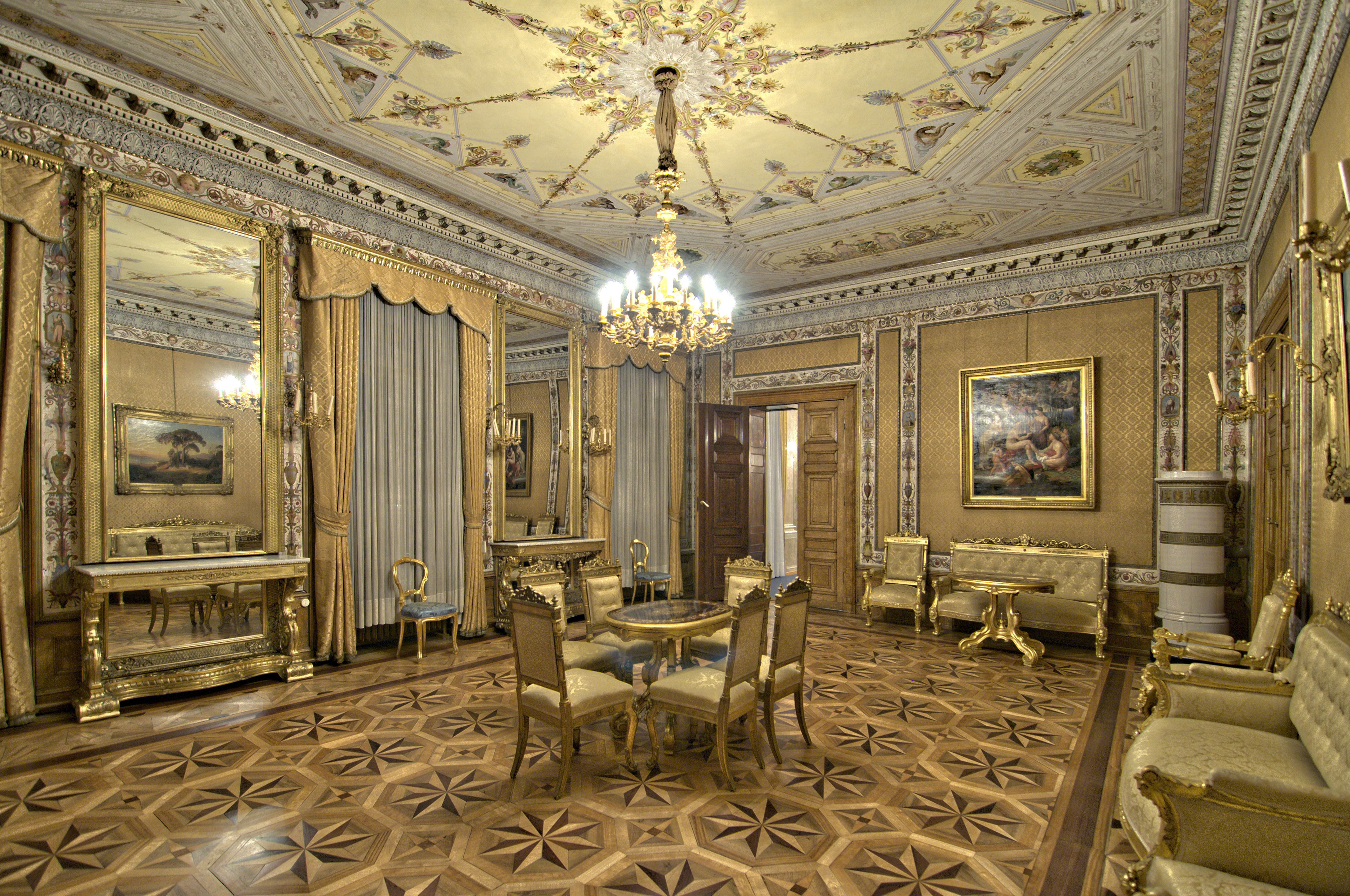 Germany, Castle of Wiesbaden, Yellow Saloon Wikipedia im Landtag – Hessen 26.–28. Februar 2013 in Wiesbaden Fragen zur Nachnutzung Wenn Sie Fragen zur Nachnutzung dieses Bildes haben, können Sie sich jederzeit gern an wenden